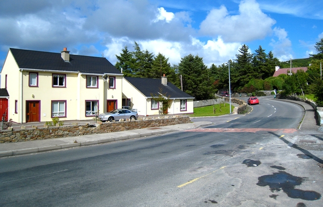 Gortahork The N56 passing through the village of Gortahork in Donegal.